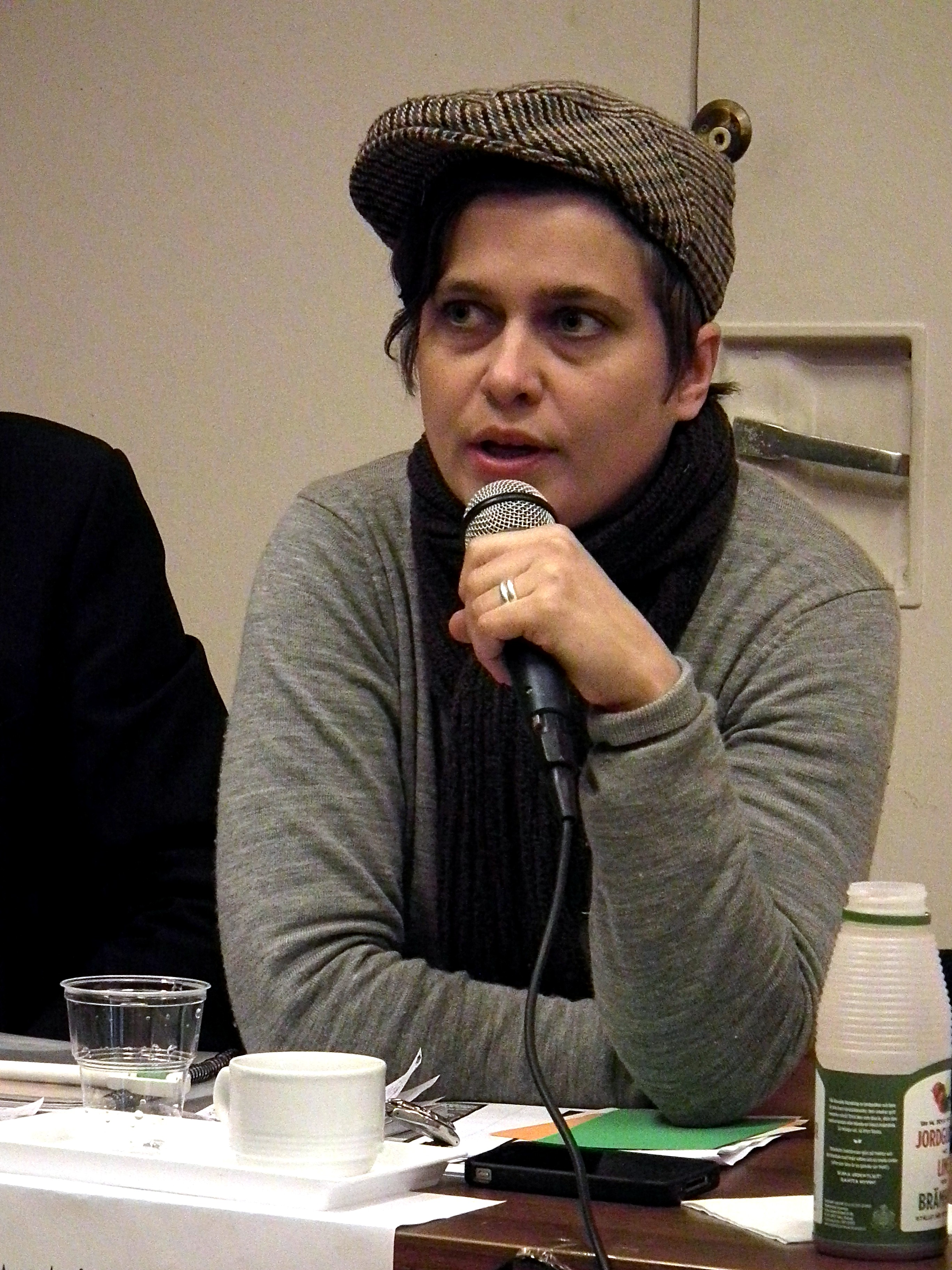 Member of parliament of Finland Silvia Modig